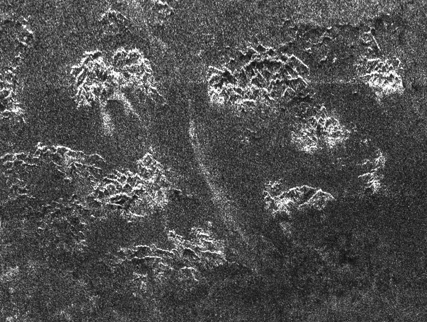 Radar image of Titan surface by Cassini. 128 pix/deg (2.85 pix/km); width = 300 km. Cropped radar strip T23 (January 13, 2007). Misty Montes and several other massifs can be seen (look a map with names).